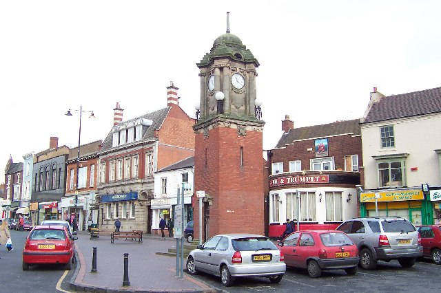 The High Street in Wednesbury, Sandwell, Great Britain